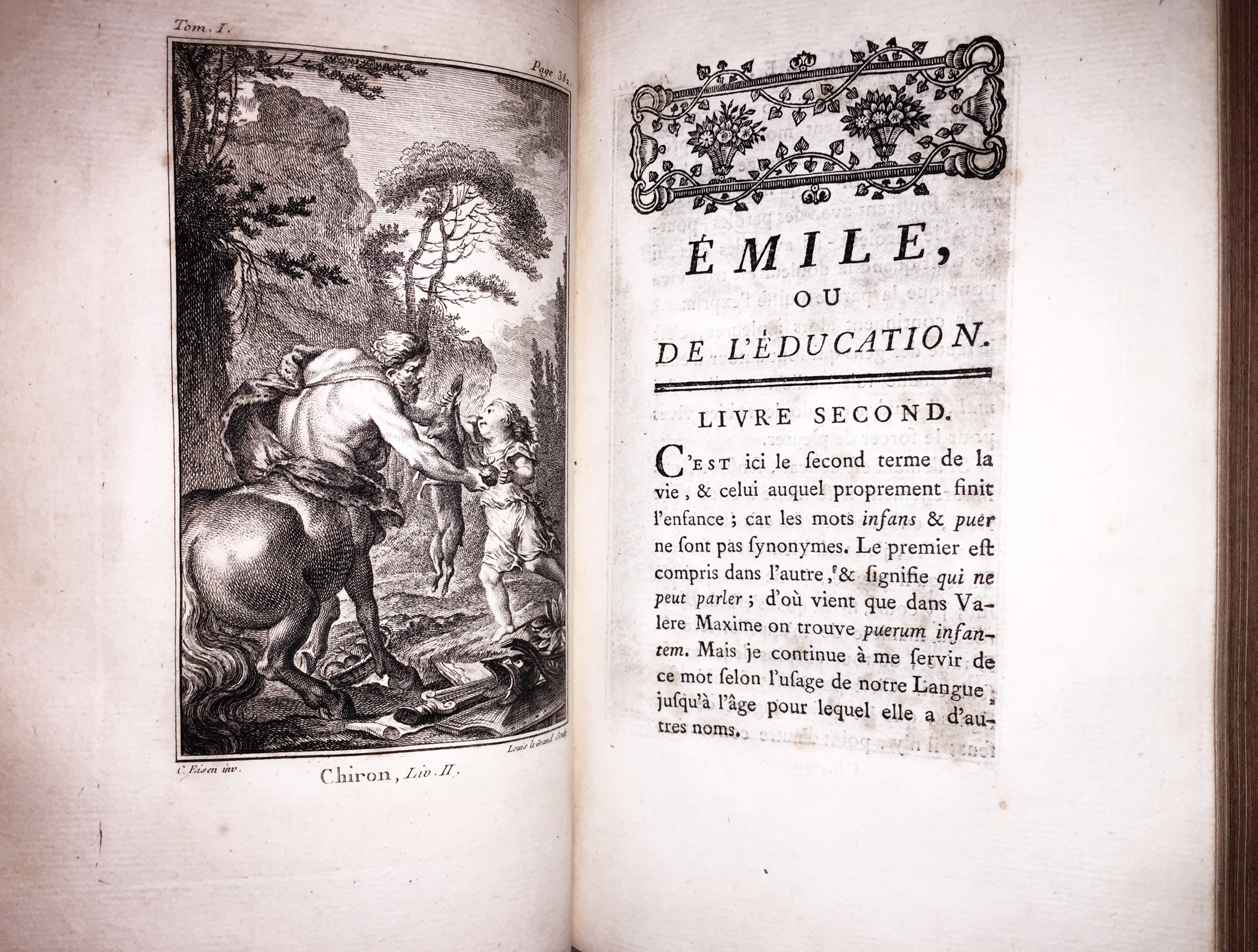 Secondo libro Emilio